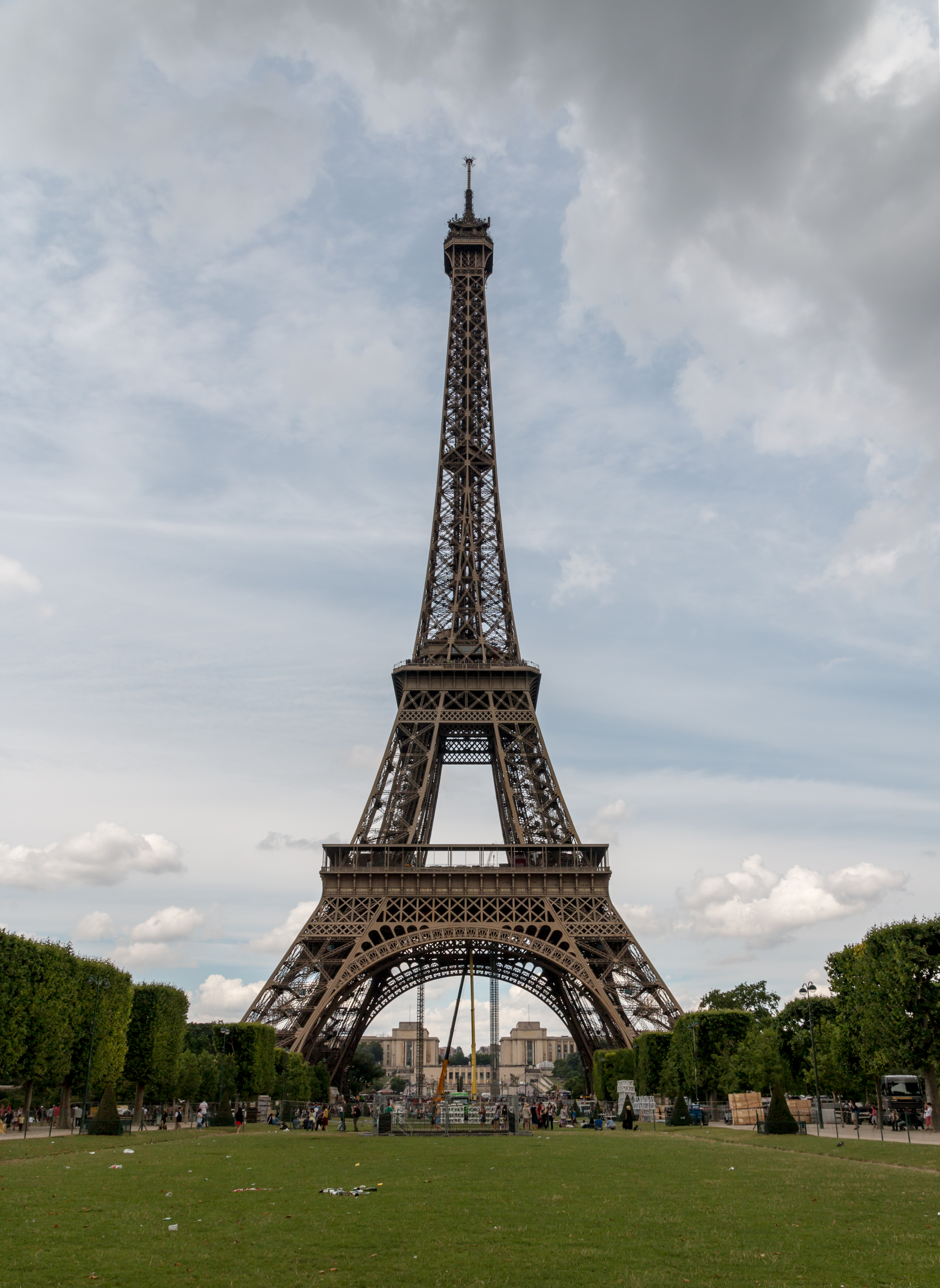 Eiffel Tower, Paris, France .